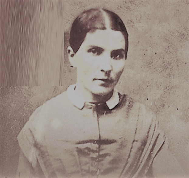 Missionfrau Emilie Christaller, wife of Basel missionary and philologist, Johann Gottlieb Christaller